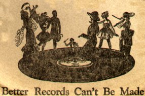 Perfect Records logo from 1920s paper sleeve